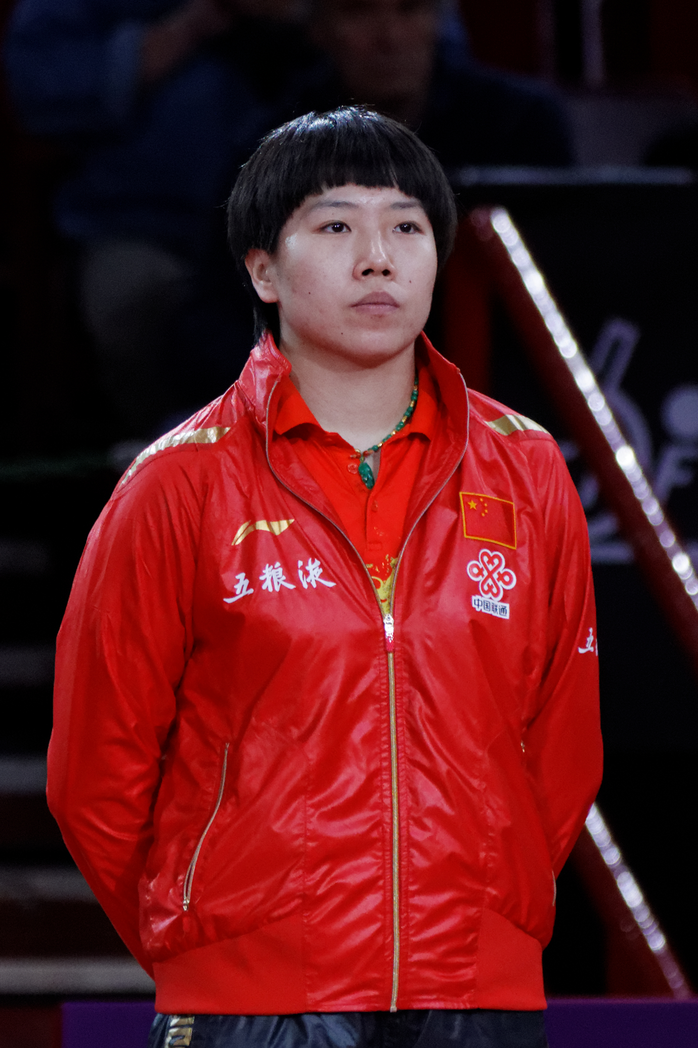 2013 World Table Tennis Championships, Paris. Women's Singles Quarterfinal.Wu Yang vs Li Xiaoxia.